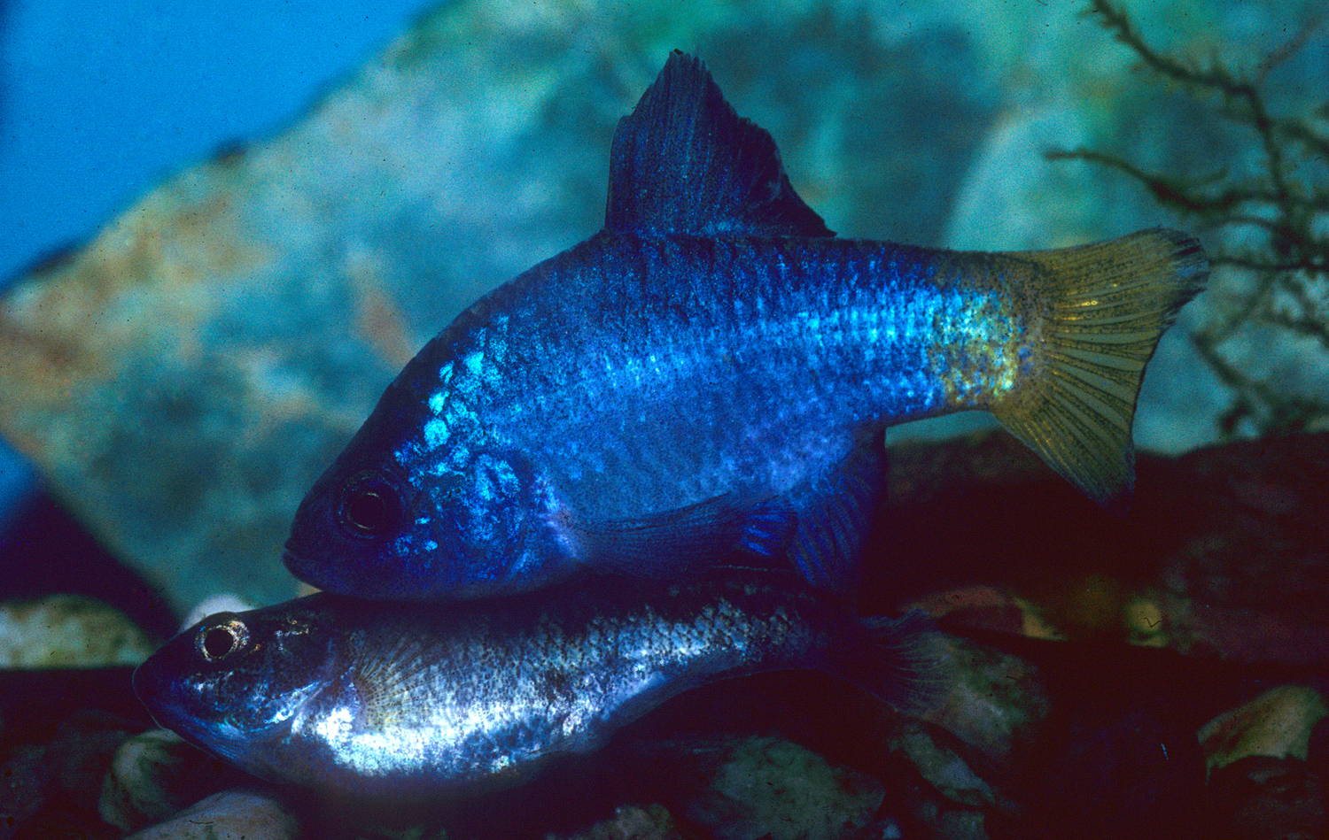 Cyprinodon macularius initiation of spawning act